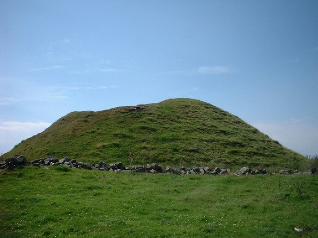 Tomen-y-mur Norman Motte The site is dominated by the Norman motte. It is possible that the fort's defences acted as the bailey for the castle.